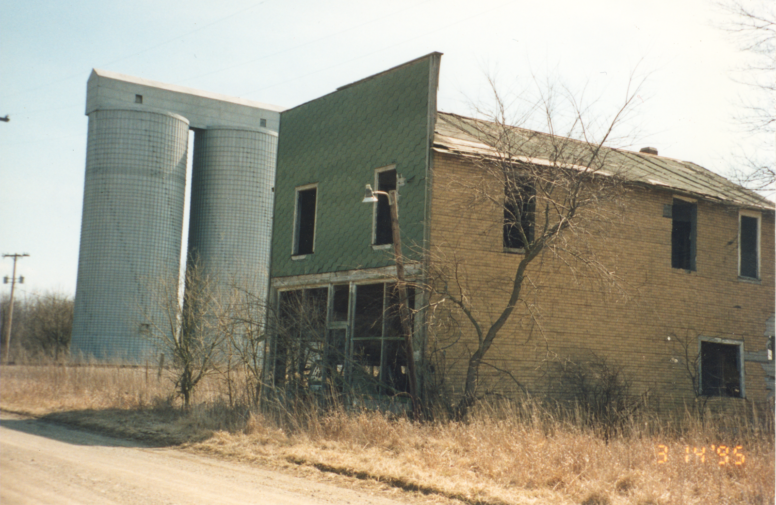 A 1995 view of the extinct town of Sloan, Indiana, looking east-southeast. In the foreground is a store building which was last operated by Quentin Bryant in the late 1940s or early 1950s; the building no longer exists. Grain storage silos (grain elevator) appear in the background on the other side of the railroad tracks; these were the last remaining vestiges of the town and have also been demolished since this photograph was taken, and the tracks have since been removed as well.